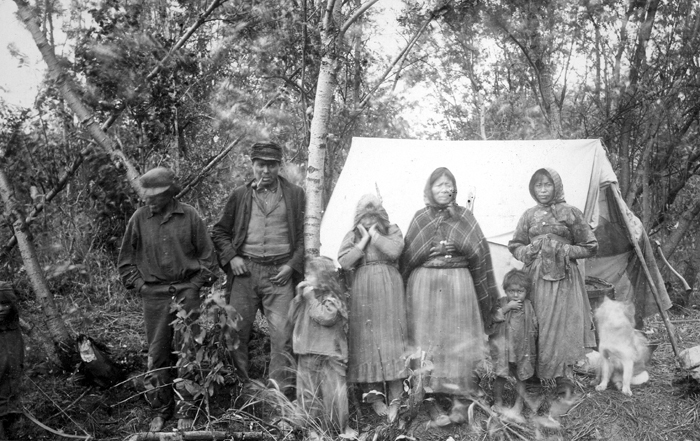 Group of Koyukuk (Koyukon) Indian Natives, at native village, on left bank of Koyukuk River, 195 miles above its mouth. Alaska. September 6, en:1898. Digital File:sfc00497 ID. Schrader, F.C. 497 Original found at [1] using keyword "Koyukuk." This image was uploaded for use in the article "Koyukon."